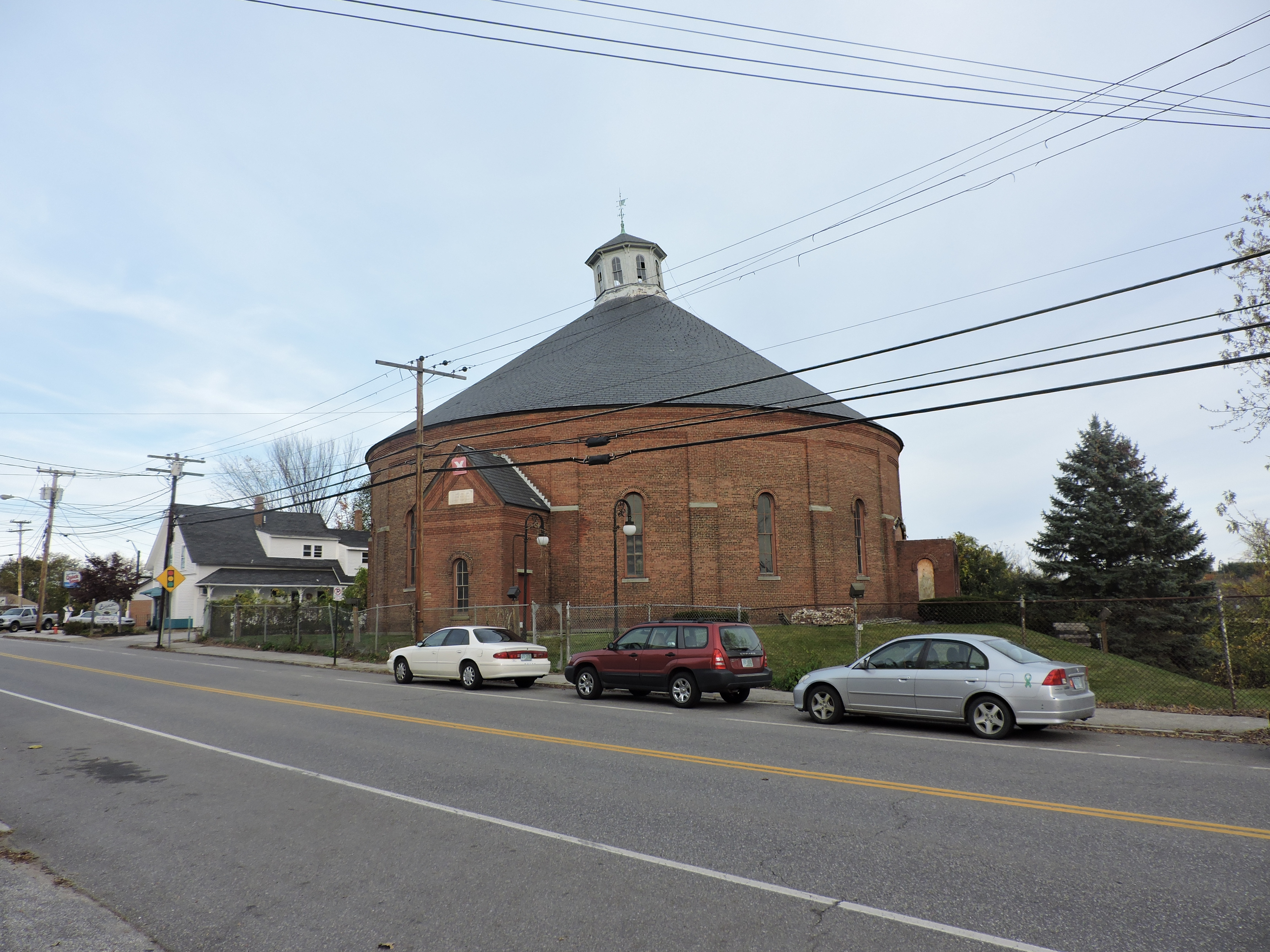 Concord, New Hampshire's 1888 Gas Building